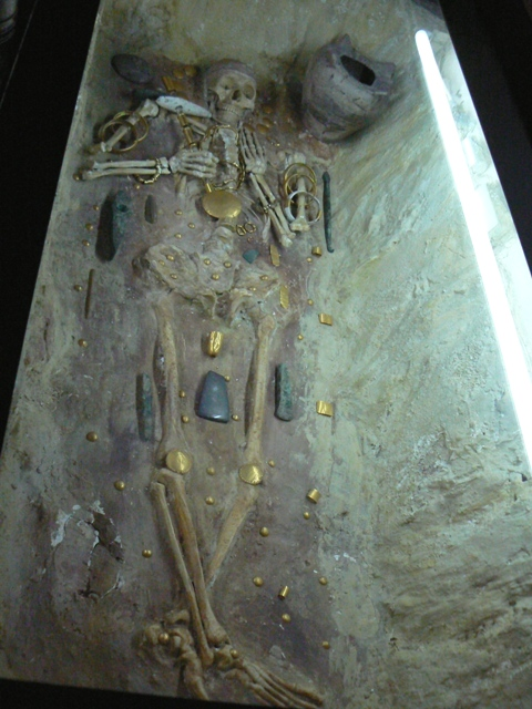 Varna eneolyth treasure in the Varna Archaeological Museum